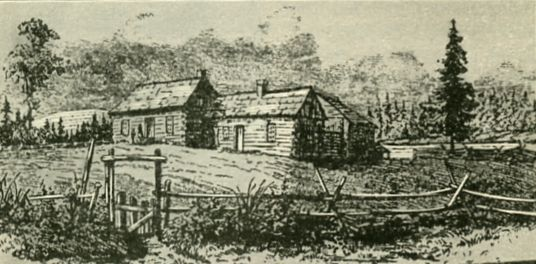 The Methodist Mission in the Willamette Valley of Oregon, United States, as it appeared in 1834.